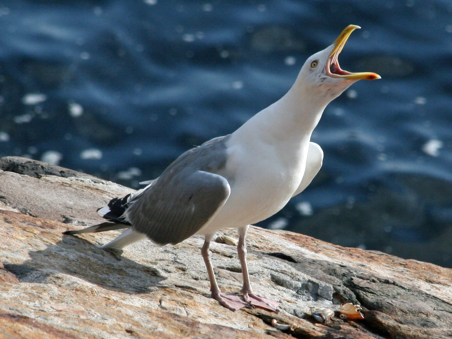 American Herring Gull (Larus smithsonianus) in Acadia National Park, Maine